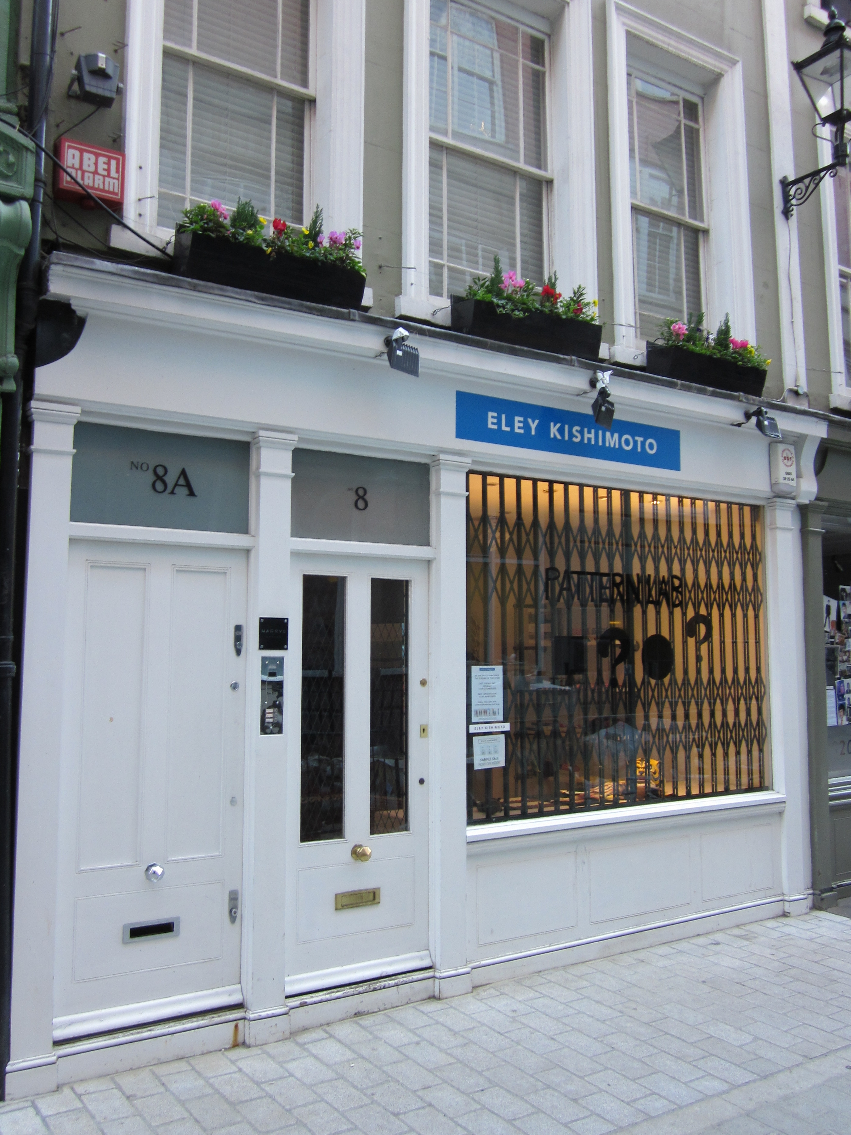 In the 1960s, 8 Kingly Street in Soho, London, was the site of The Bag O'Nails, a club frequented by Paul McCartney and Jimi Hendrix among others.